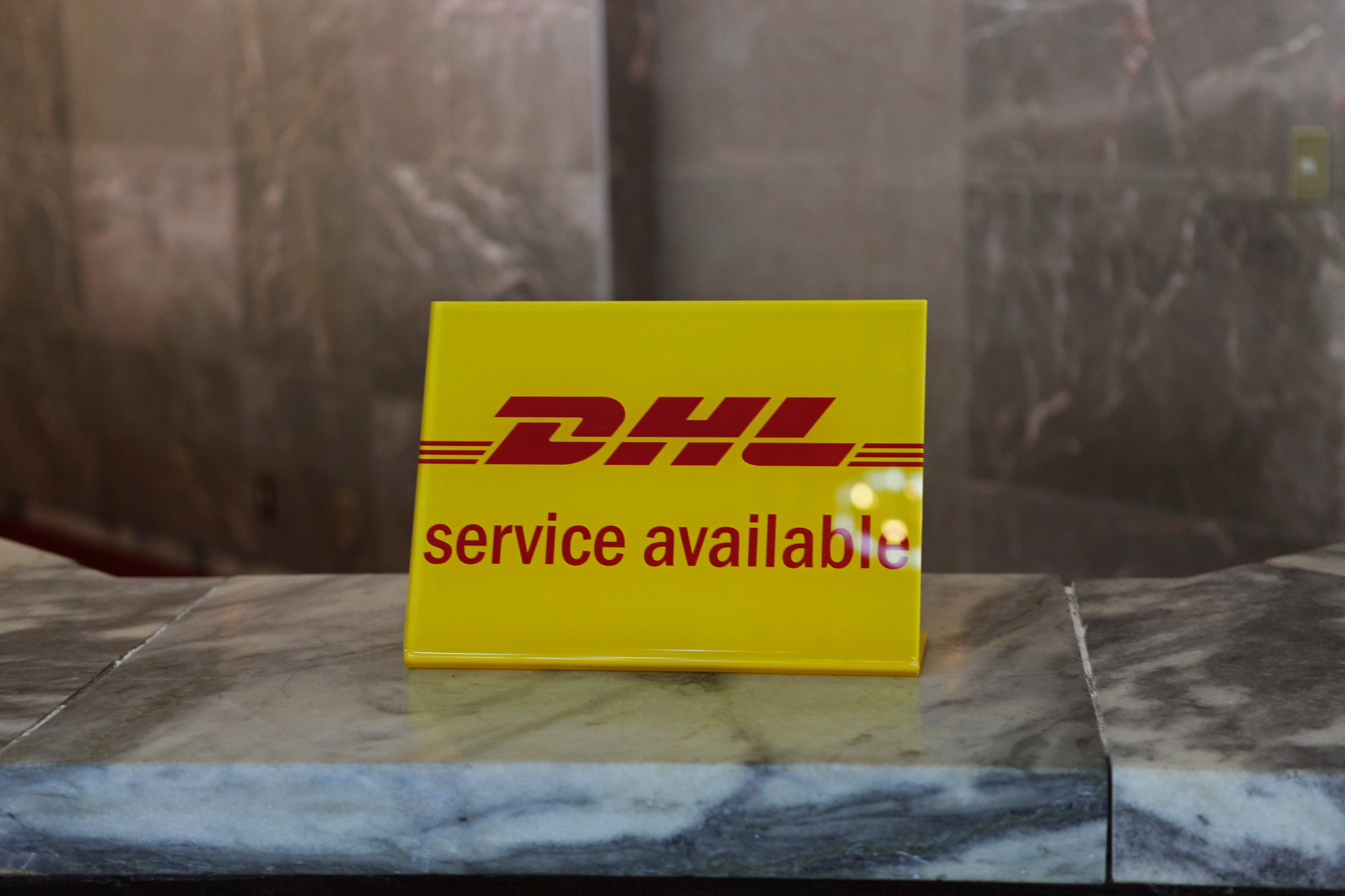 In Yanggakdo International Hotel. DHL World Express, a unit of DHL Corp., started package courier services in north Korea, setting the DPRK's External Transport Company as a contact office from outside of the country.